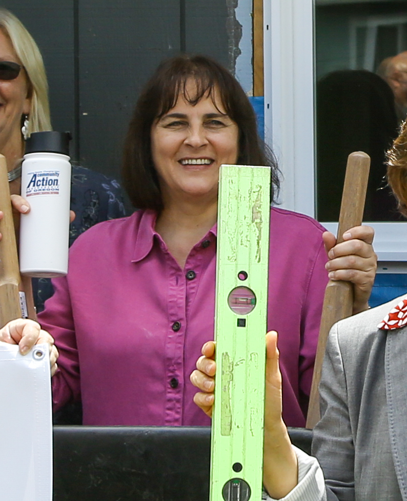 In honor of National Homeownership Month, U.S. Department of Agriculture (USDA) Rural Development (RD) Oregon State Director Vicki Walker, (center with wheelbarrow) U.S. Representative Suzanne Bonamici (OR) (center with level), local nonprofit Community Action Team (CAT), and community leaders join first-time homeowners Jessica and Jason Smith (far right)